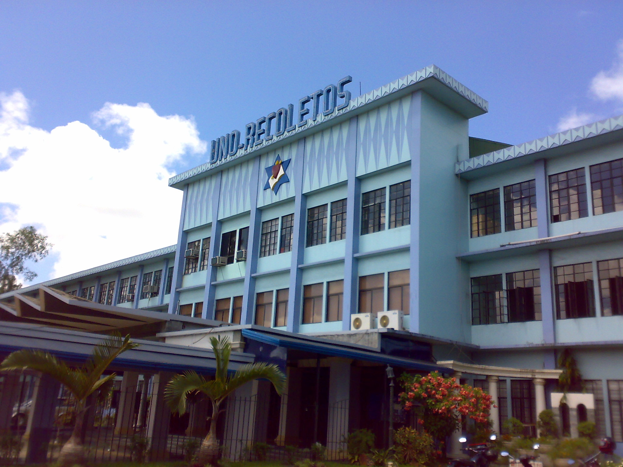 Facade of the Main building of the University of Negros Occidental-Recoletos, Bacolod City, Philippines.